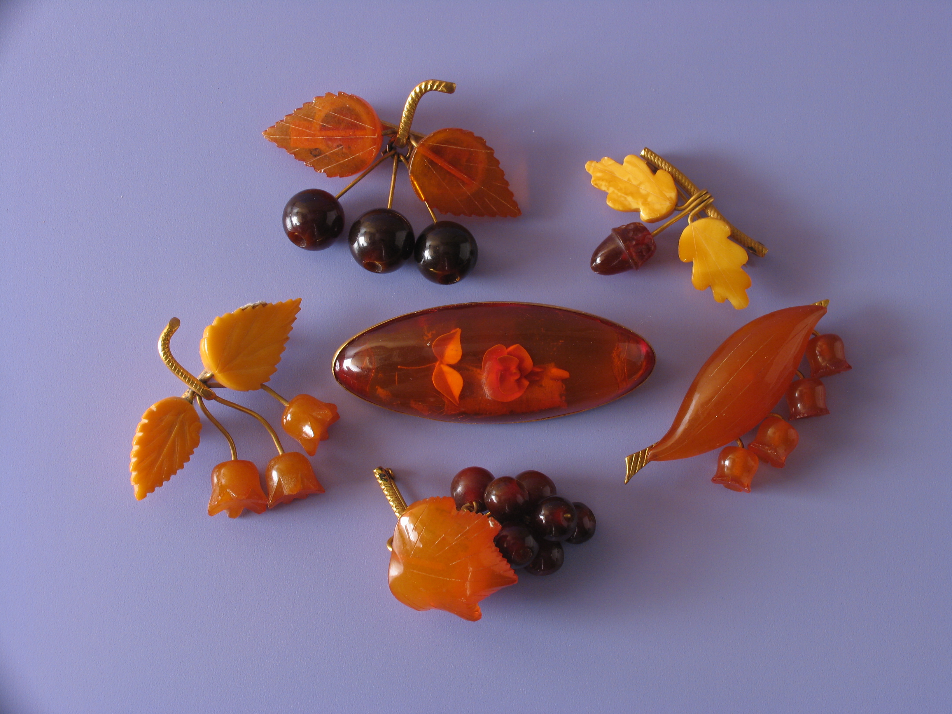 Amber brooches produced by Kaliningrad Amber Combine in the 1950-1960s. (Mass souvenir and jewellery). Photo by Pokrovsky. Kaliningrad Amber Museum collections